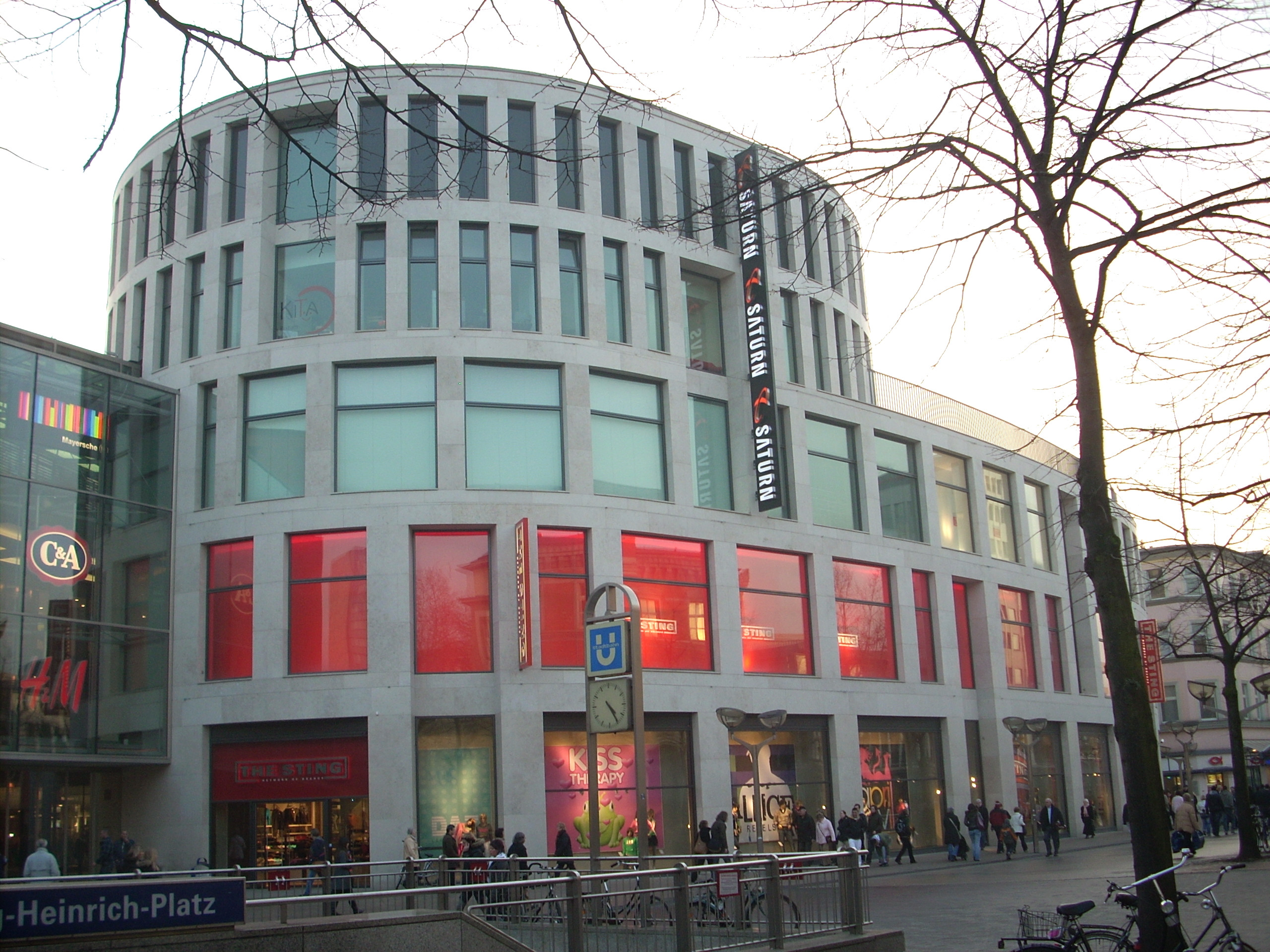 Right wing of the shopping mall Forum Duisburg (Germany)